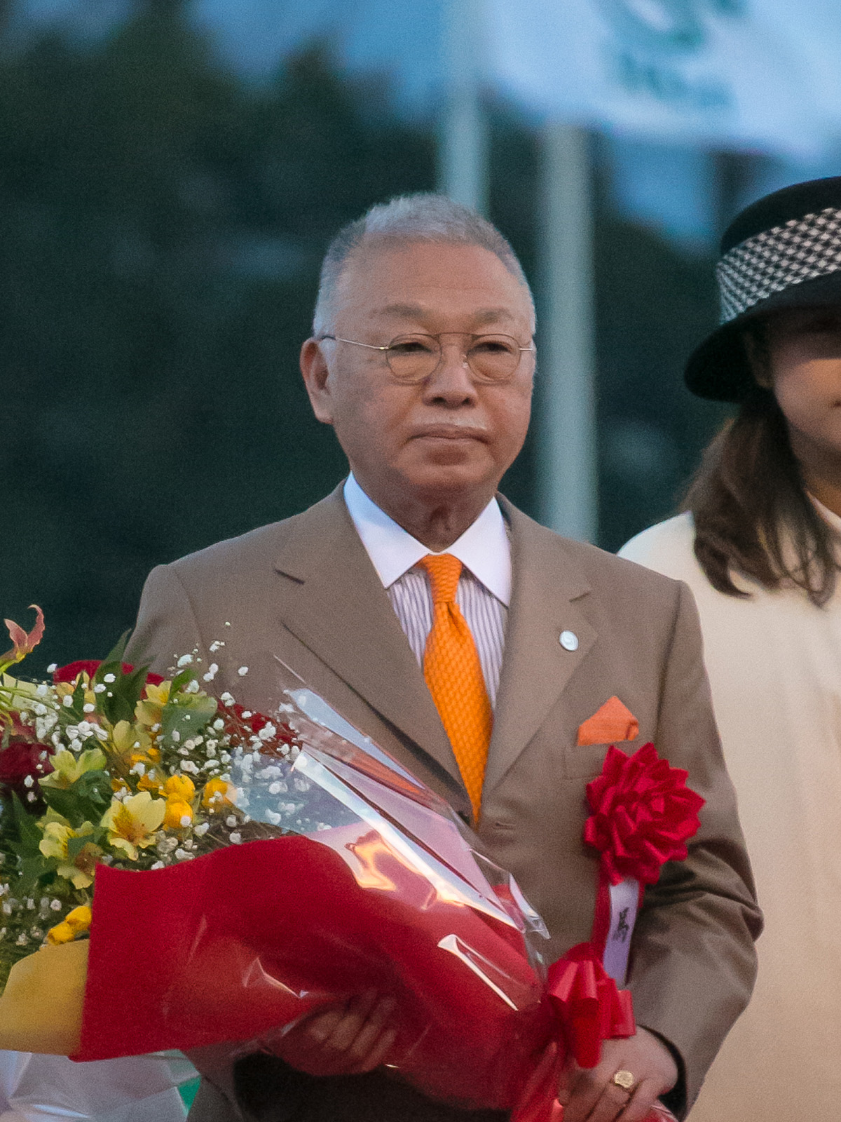 Sachiaki Kobayashi (Architect and Businesspeople from Japan).